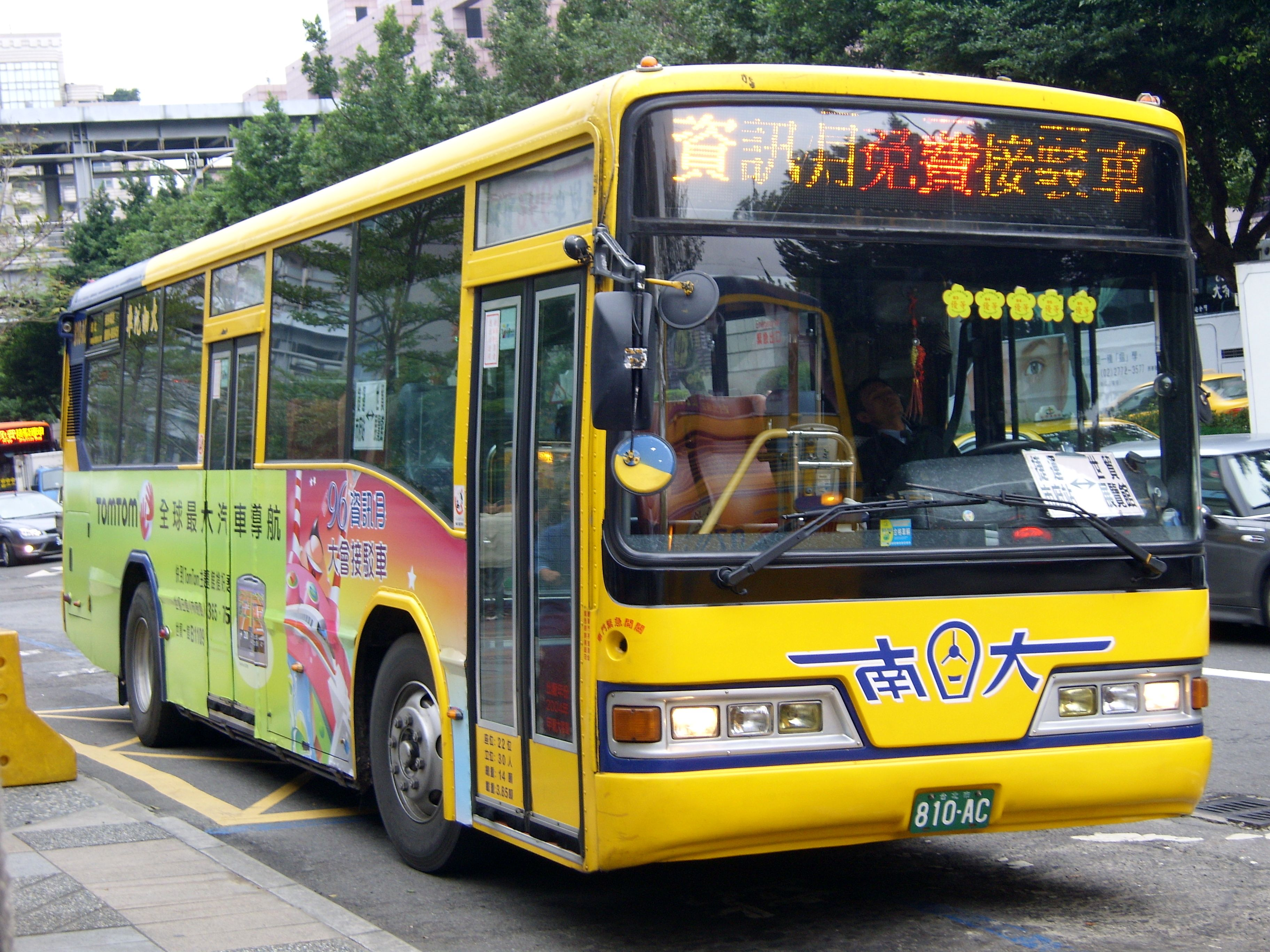 2007 Taipei IT Month: Shuttle Bus by Da-nan Bus Co., Ltd.